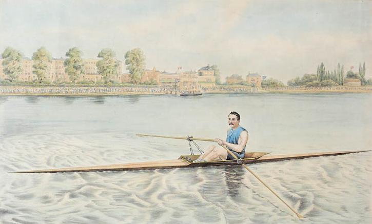 Lithograph entitled "Edward Hanlan of Toronto - Champion Sculler of the World".